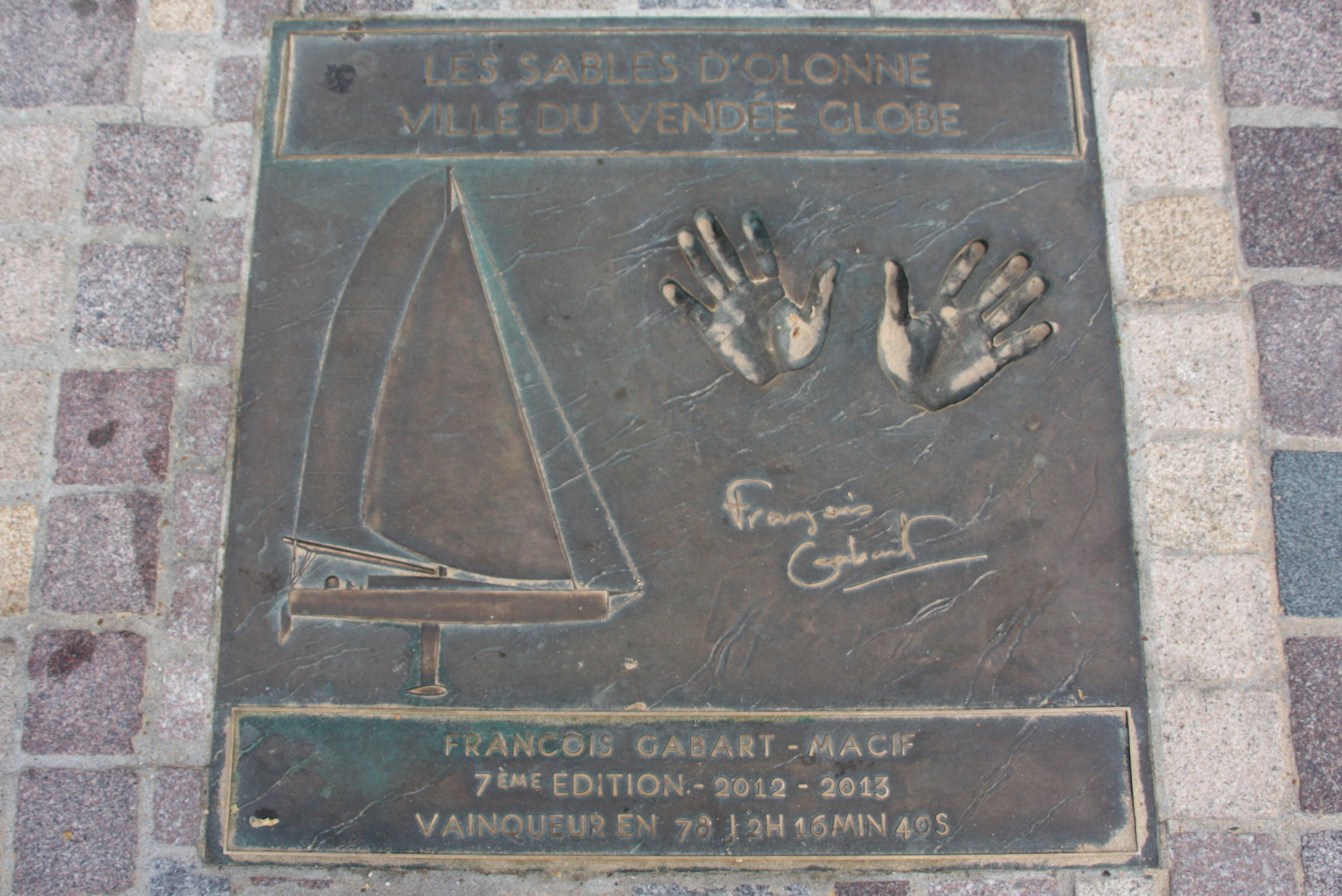 François Gabard's block on Les Sables d'Olonne "Vendée Globe" (yachting race) walk of fame